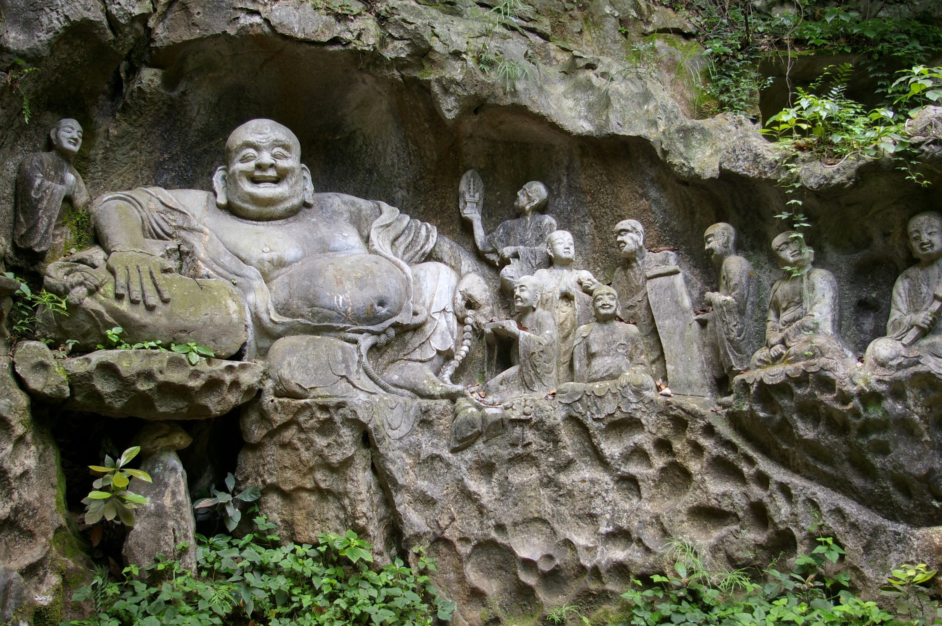 The Laughing Buddha on Feilai Feng in Hangzhou